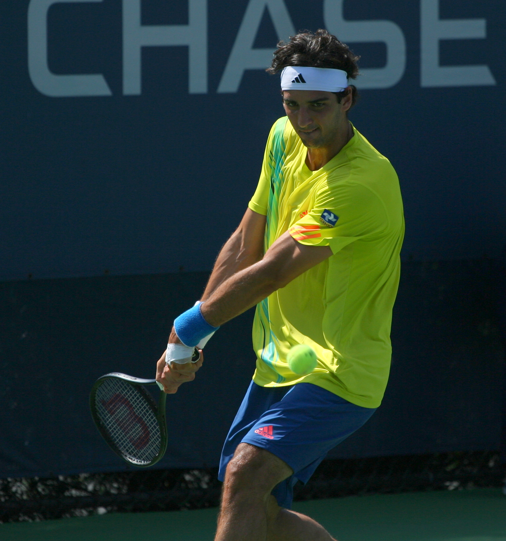 U.S. Open Tuesday, Aug. 28, 2012